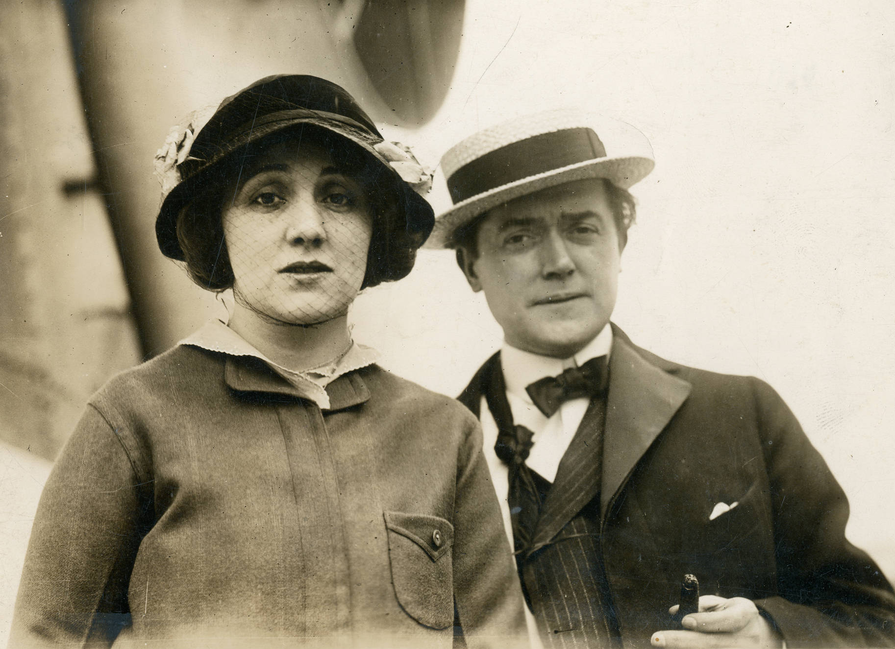 Laurette Taylor, stage actress with her husband, Hartley Manners Subjects: actresses